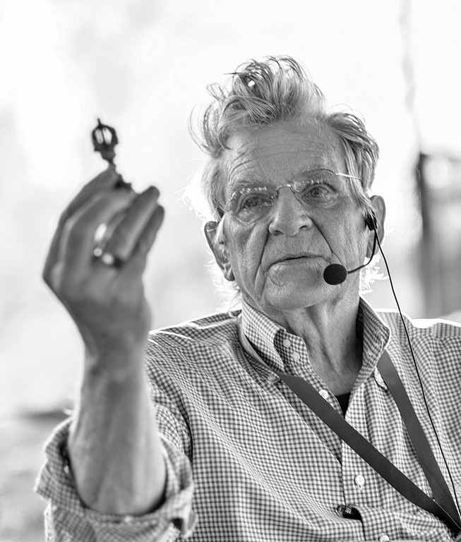 Bob Thurman in 2014 by Christopher Michel. Ladakh, India.